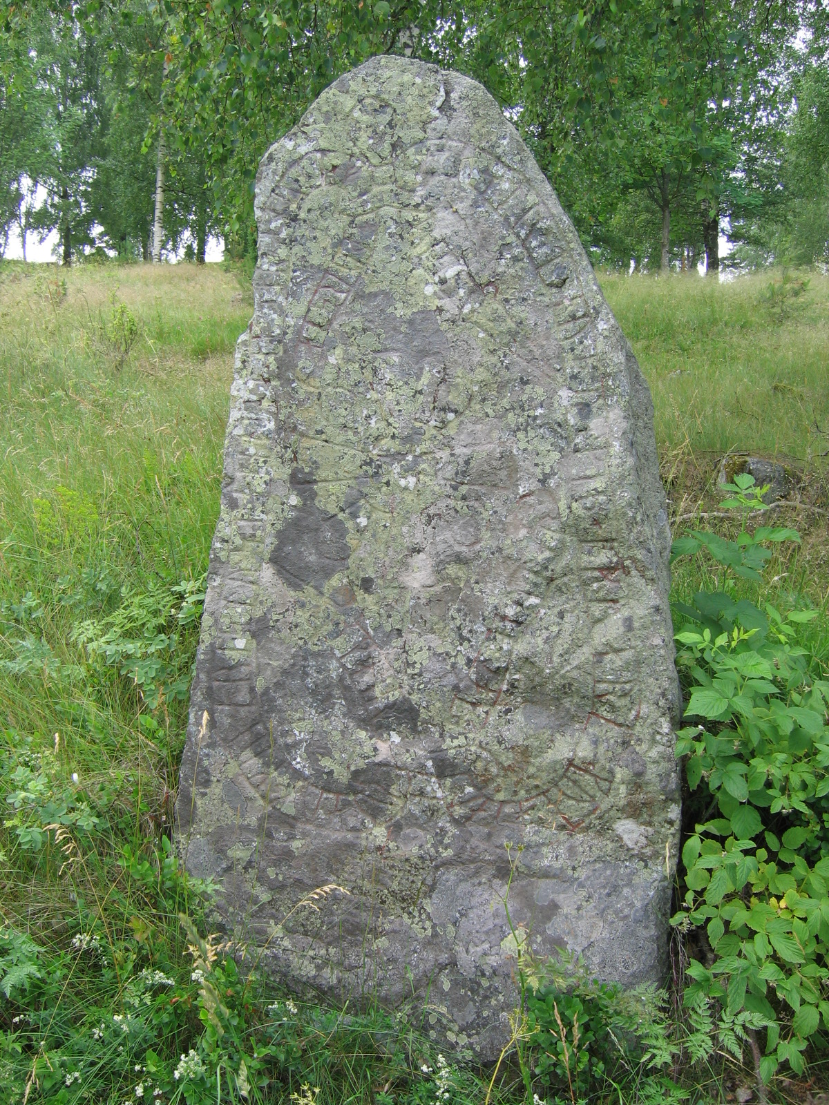 Runestone U661 (RAÄ-nr Håtuna 67:2) in Håtuna Parish, Håbo Hundred, Uppalnds-Bro Municipality, Stockholm County, Uppland, Sweden.